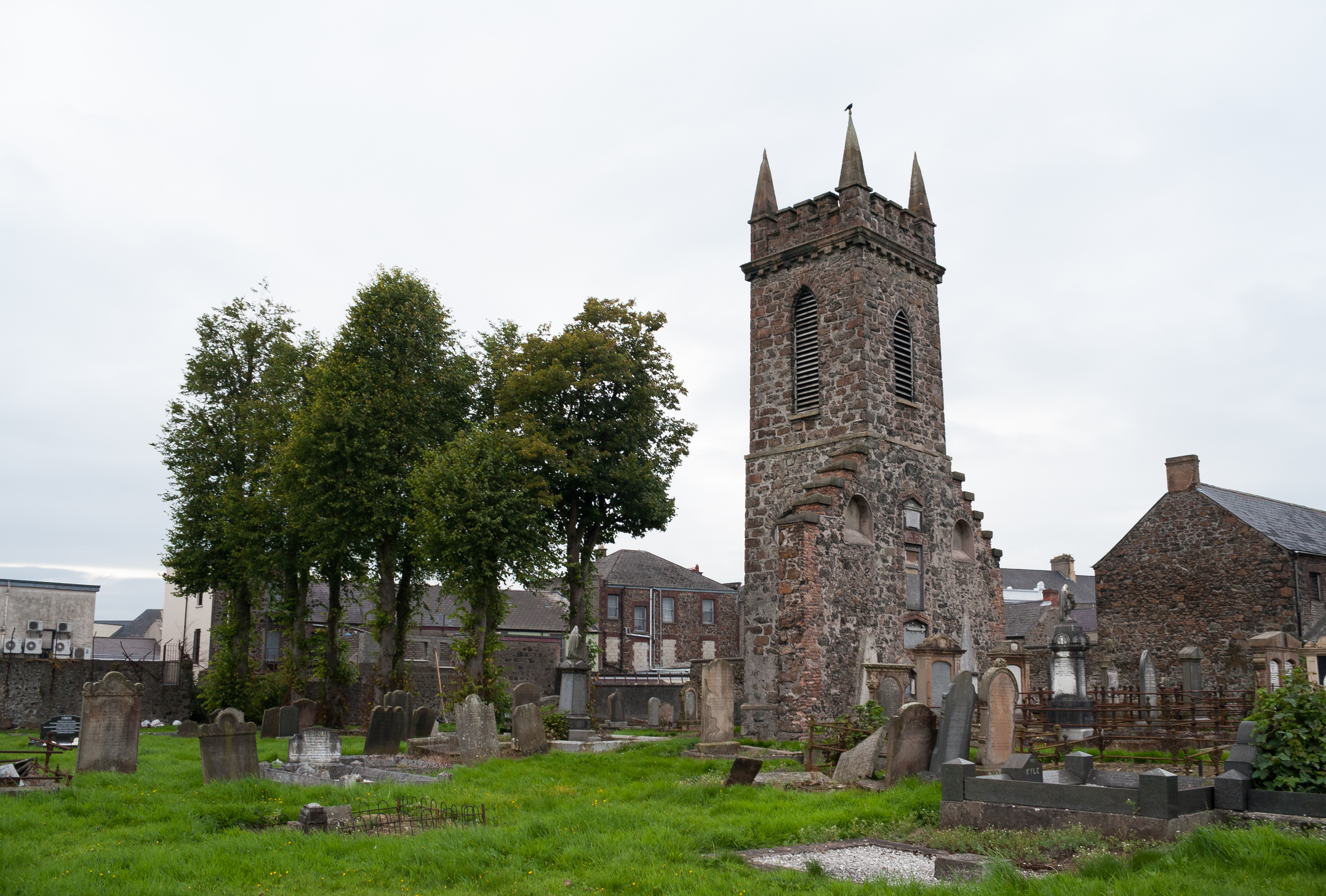 South-east view of the surviving tower of the former parish church at Church Street. Listed as B2 building.